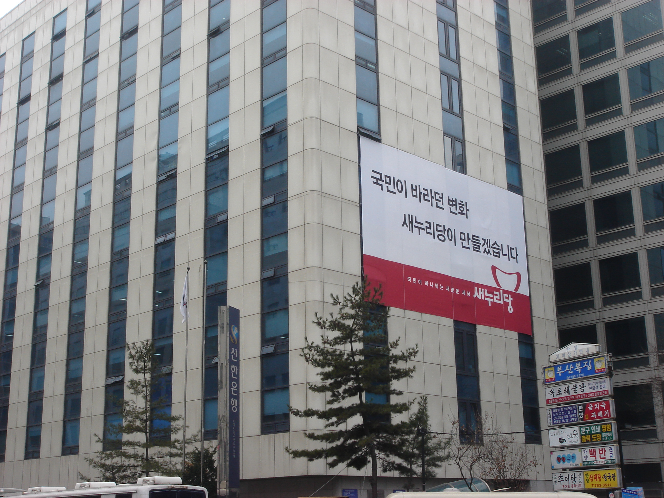 The building of the Saenuri Party. Sony Cyber-shot DSC-T7